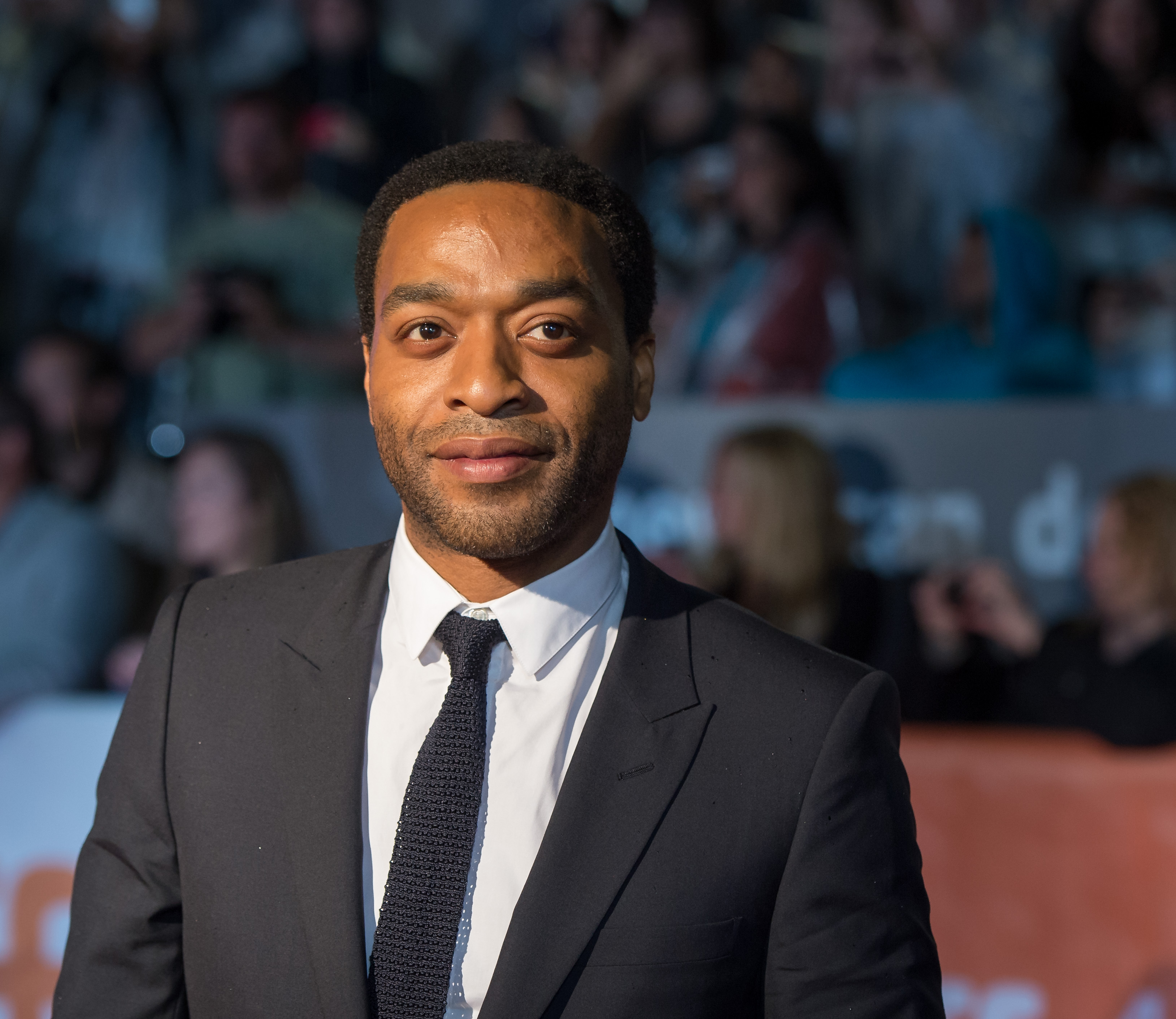 Actor Chiwetel Ejiofor attends the world premiere for "The Martian” on day two of the Toronto International Film Festival at the Roy Thomson Hall, Friday, Sept. 11, 2015 in Toronto. NASA scientists and engineers served as technical consultants on the film. The movie portrays a realistic view of the climate and topography of Mars, based on NASA data, and some of the challenges NASA faces as we prepare for human exploration of the Red Planet in the 2030s.